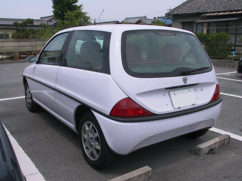 A rear view of Lancia Y